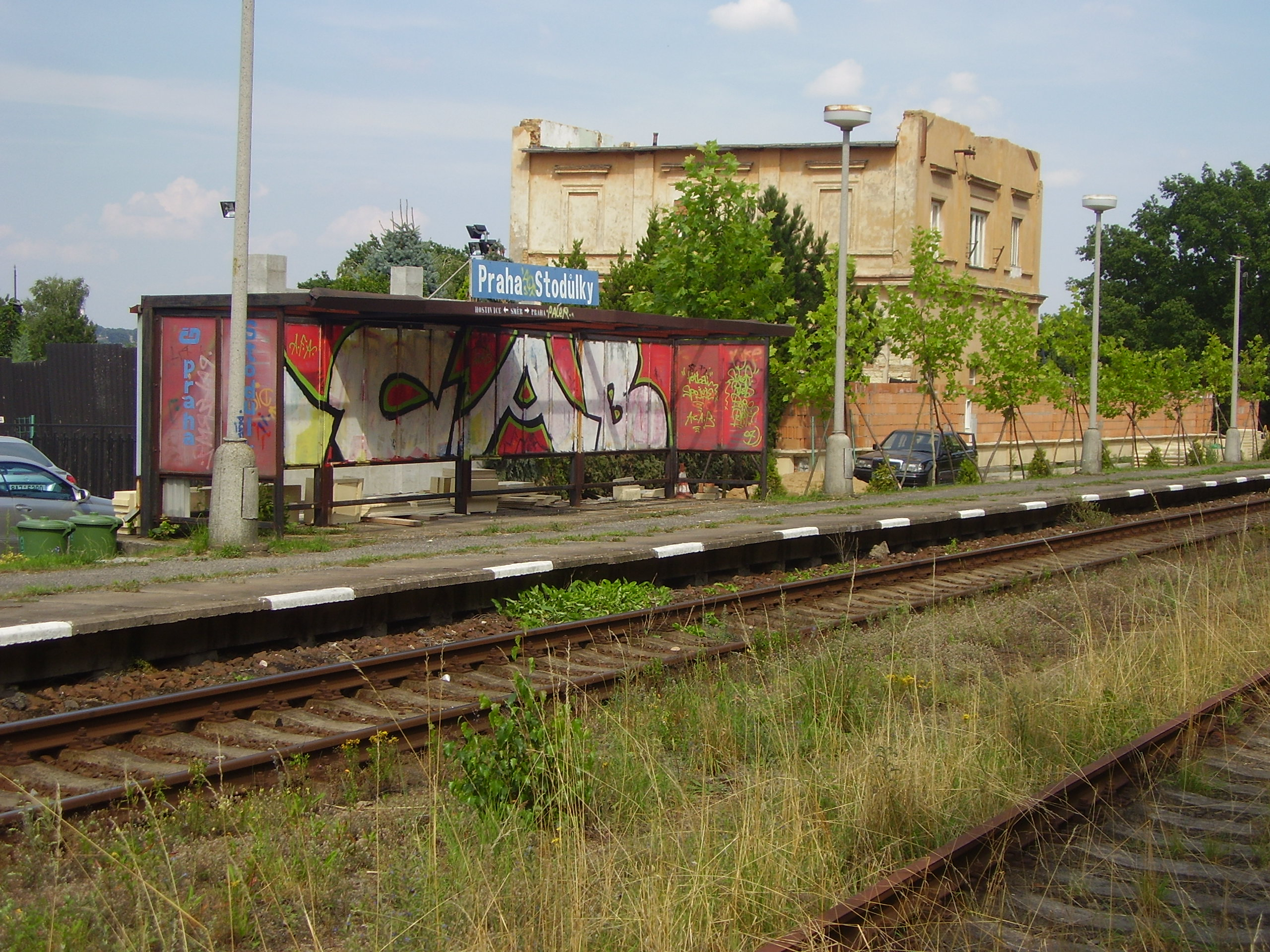 Train stop Praha-Stodůlky